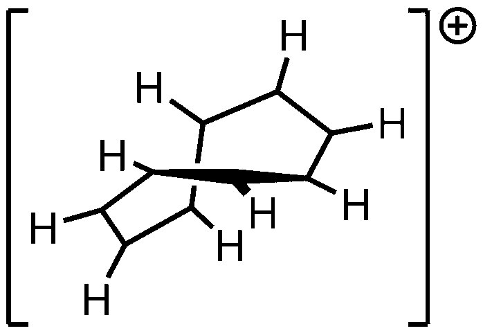 sketch of trans-C9H9+